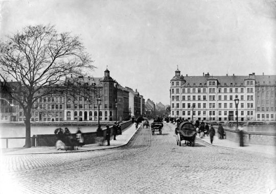 Peblingebroen, now replaced by Dronning Louises Bro, in Copenhagen, Denmark